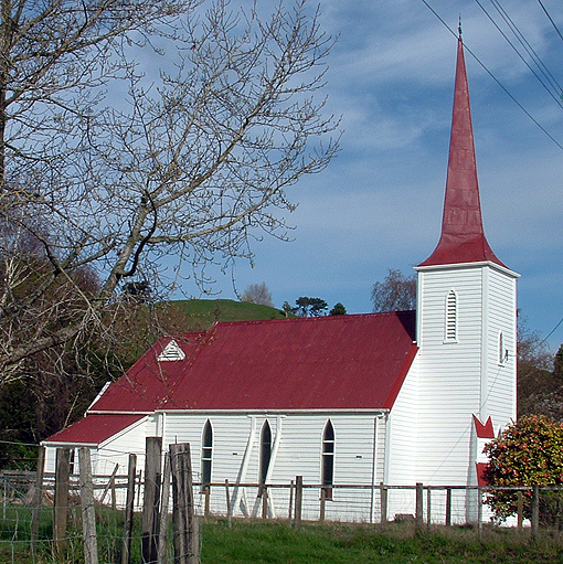 Photo taken by Kaiwhakahaere of St Mary's Anglican Church, at Upokongaro, about 12 km from Wanganui in New Zealand. Built in 1877, the church has a most unusual design in that a three-sided steeple protrudes from a square tower. PD